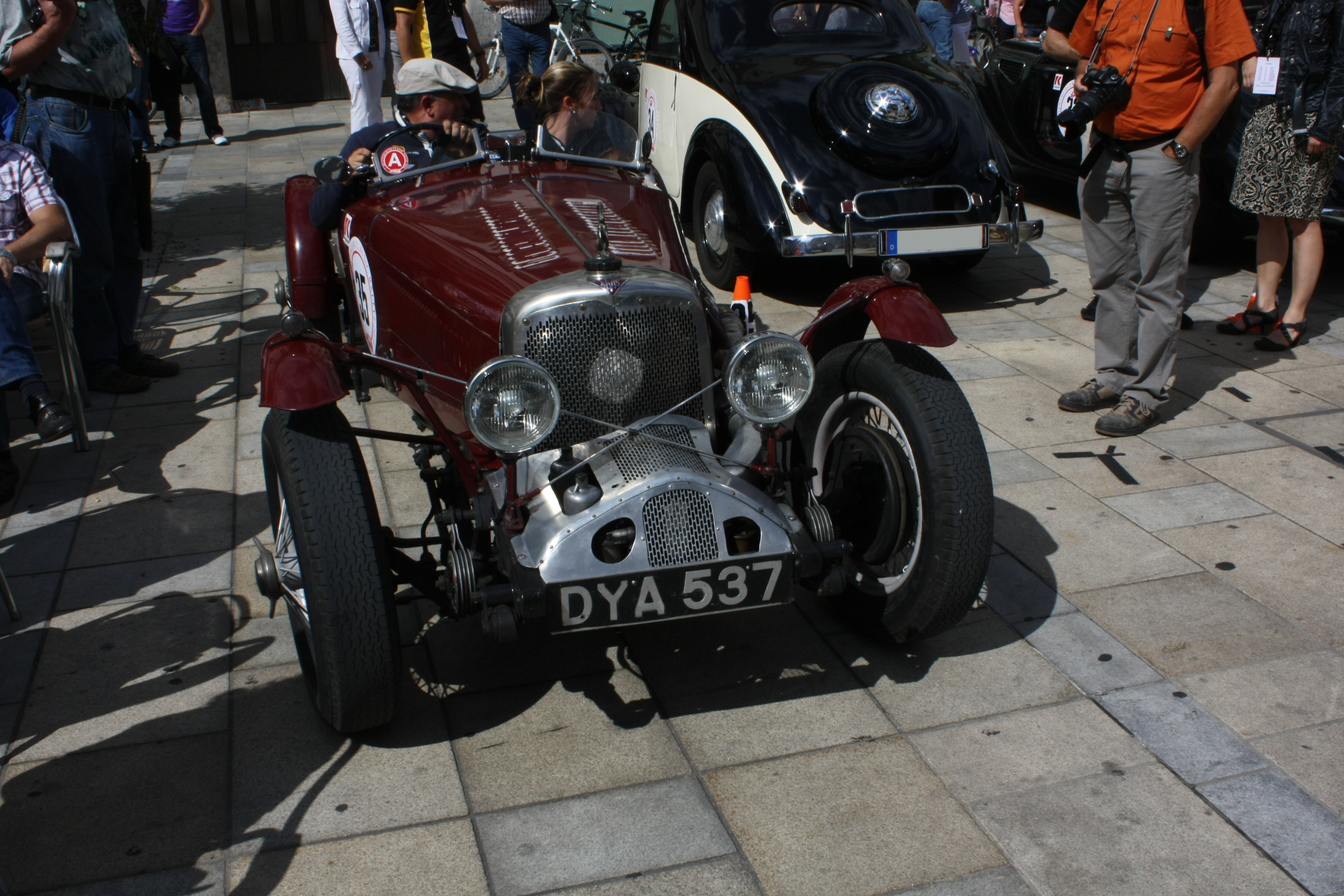 Alvis 12/70 Special Supercharged 1937 Alvis 12/70hp Supercharged ‘Special’ Registration no. DYA 537 Chassis no. 15226 Engine no. 15710 source of information